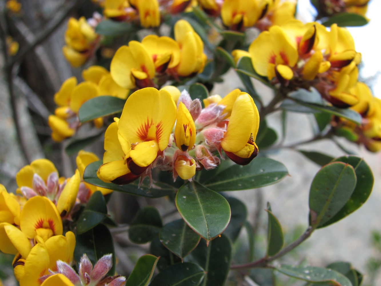 Pultenaea daphnoides, Kooyoora State Park, Victoria, Australia